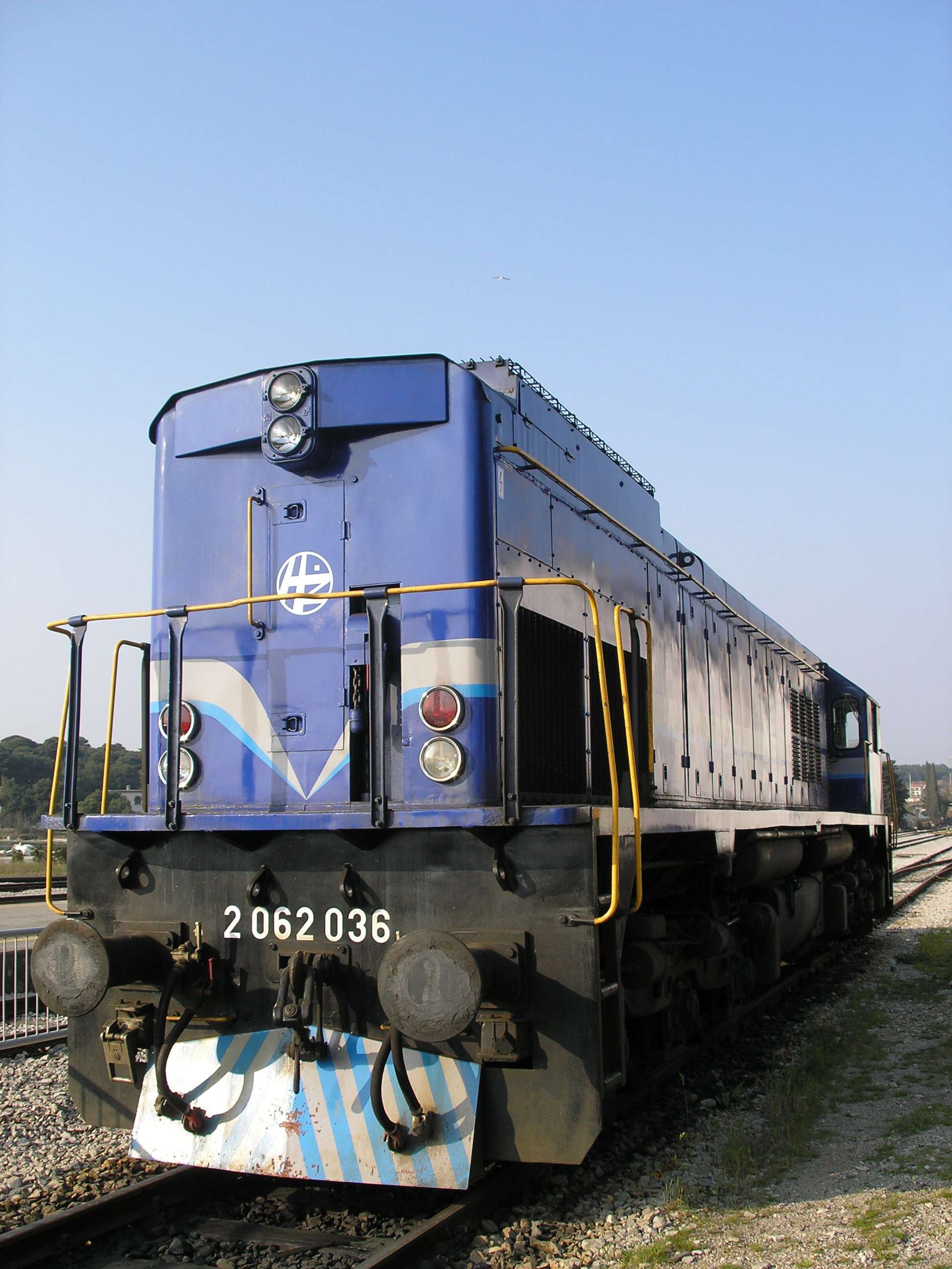 Croatian series 2062 diesel locomotive (EMD G26) in Pula railway station, Croatia